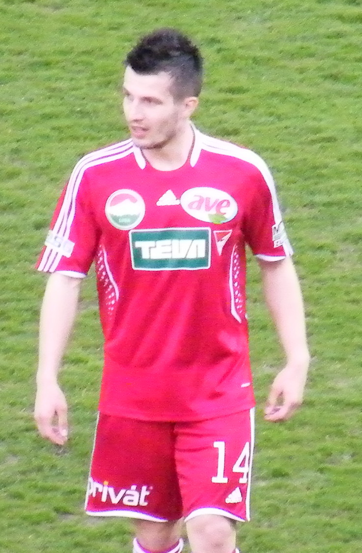 Gergely Rudolf Hungarian football player